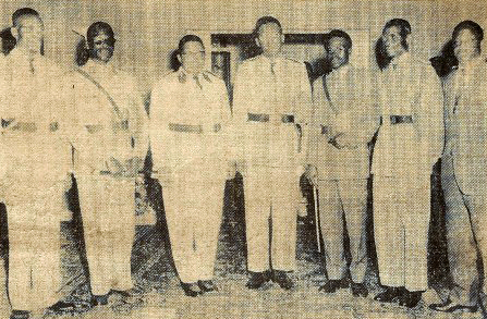 A photo taken of a Katangese military delegation with the central government counterparts with whom they were negotiating. From left to right: Major Nyiamaseko, chief of ordinance to the Head of State; Major Moke, Katangese commandant of Camp Massart in Élisabethville; President Joseph Kasa-Vubu; General Joseph Mobutu; Captain Selemani, Katangese commandant of Camp Tshikolobwé; Major Kiembe; Victor Nendaka, head of the Sûreté